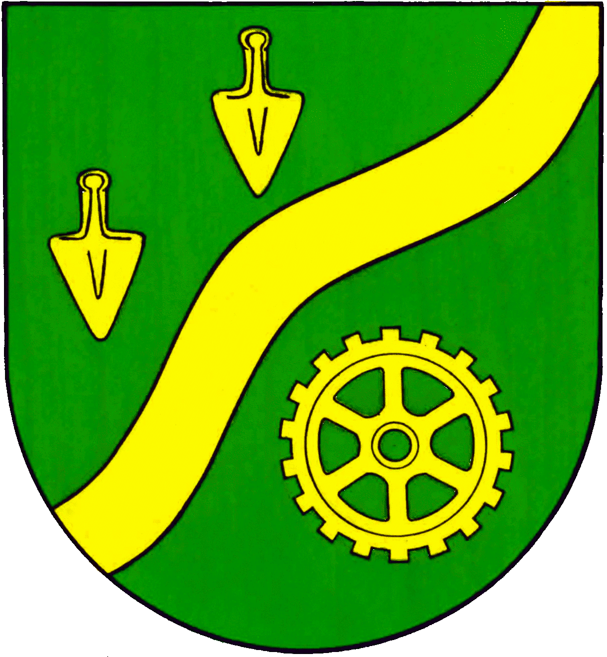 Coat of arms of the Stadt (town) Schenefeld in Schleswig-Holstein, Germany.